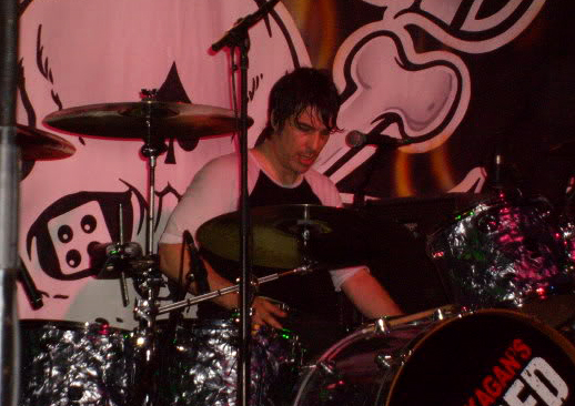 Former Loaded drummer Geoff Reading performing with Loaded at the Glasgow Garage in 2008.